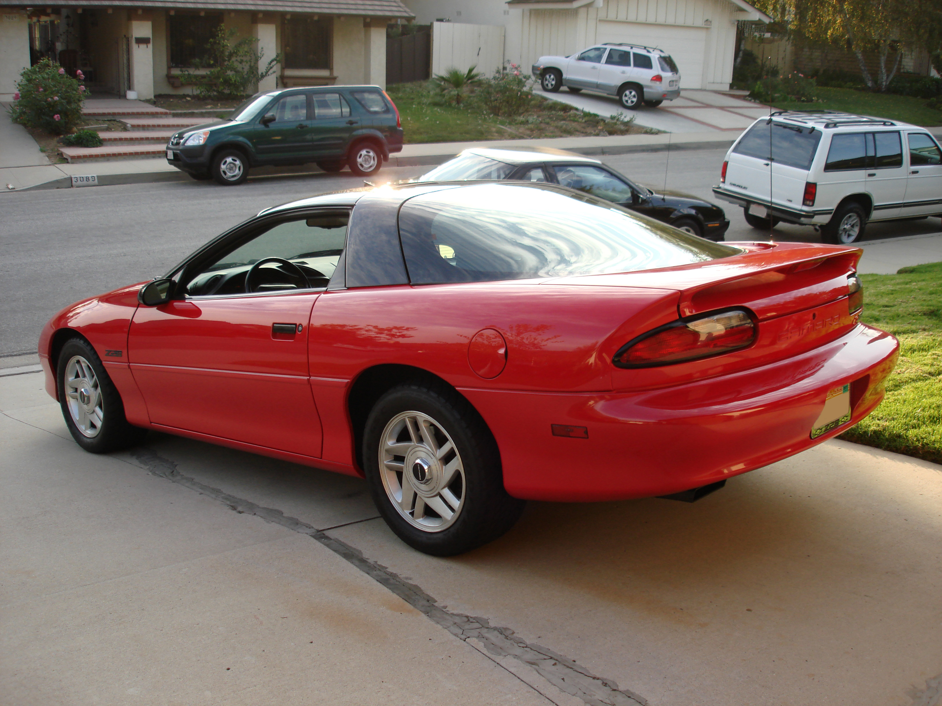 1993 Chevrolet Camaro Z28. Camera used was a Sony Cyber-shot DSC-W100.